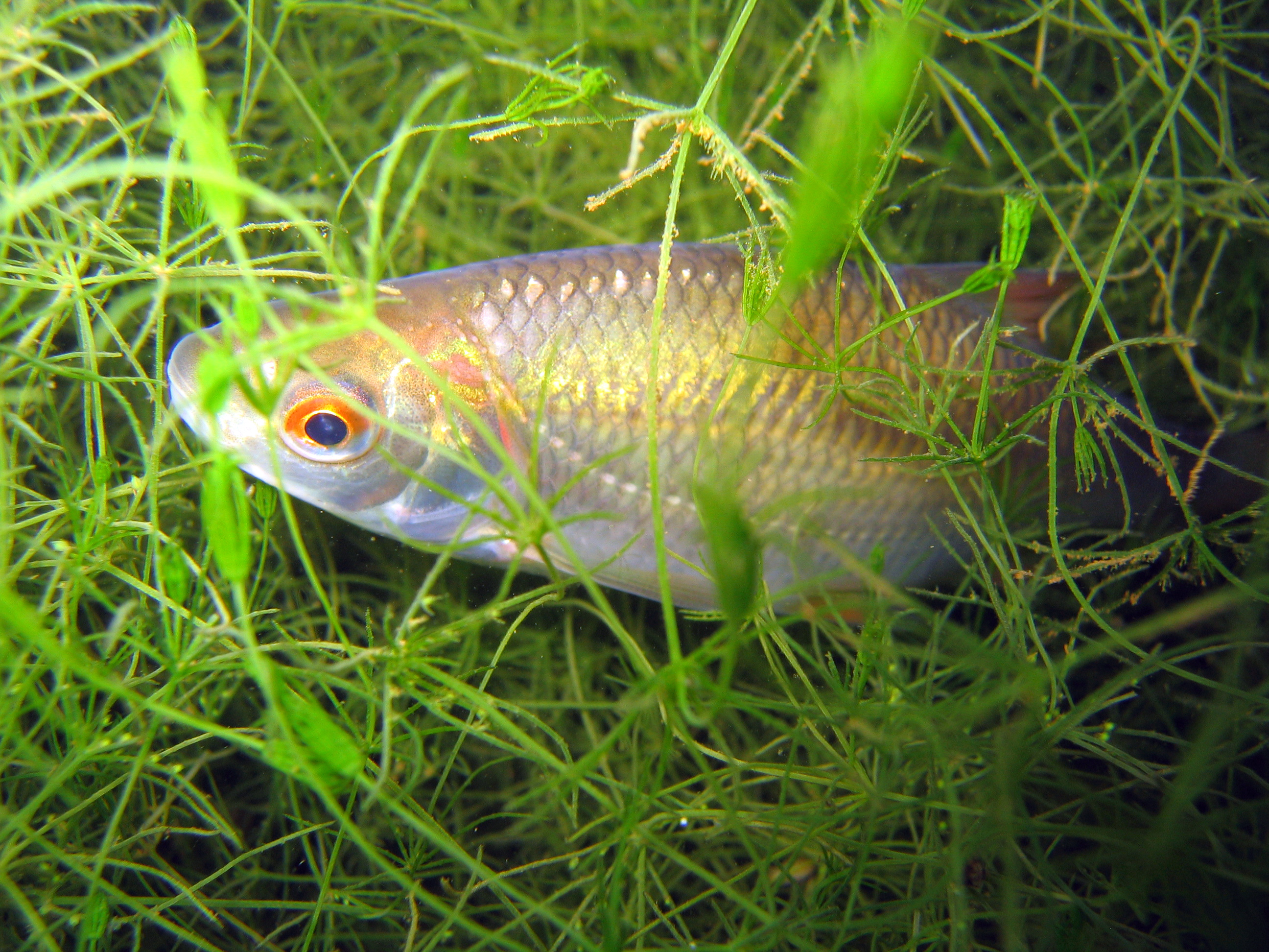 Common roach (Rutilus rutilus) photograped in Blausteinsee, an artificial lake north of Eschweiler in North Rhine-Westphalia, Germany.